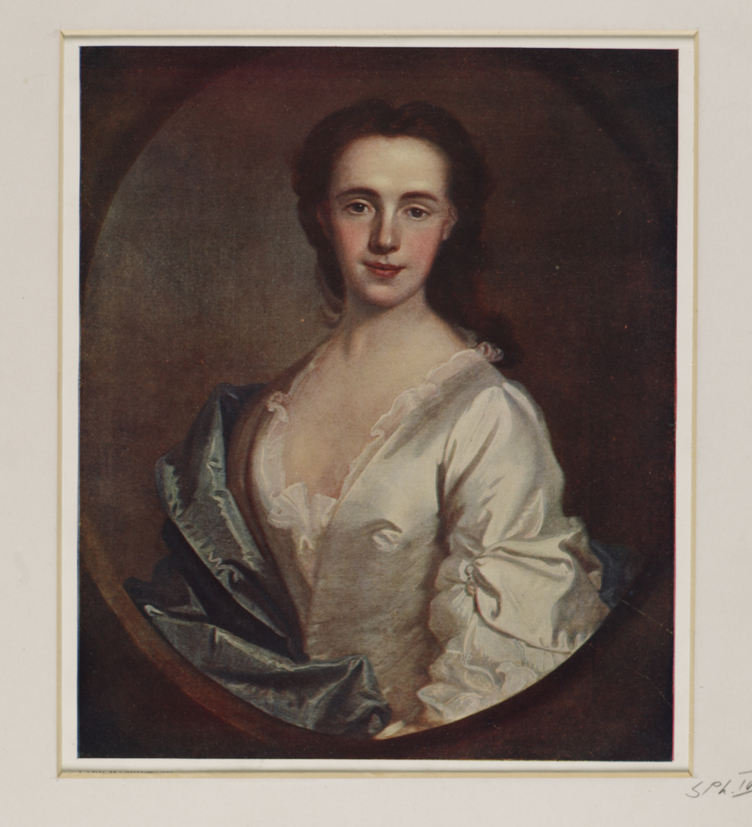 Lady Mackintosh Portrait from waist up, in white dress with green robe around shoulder